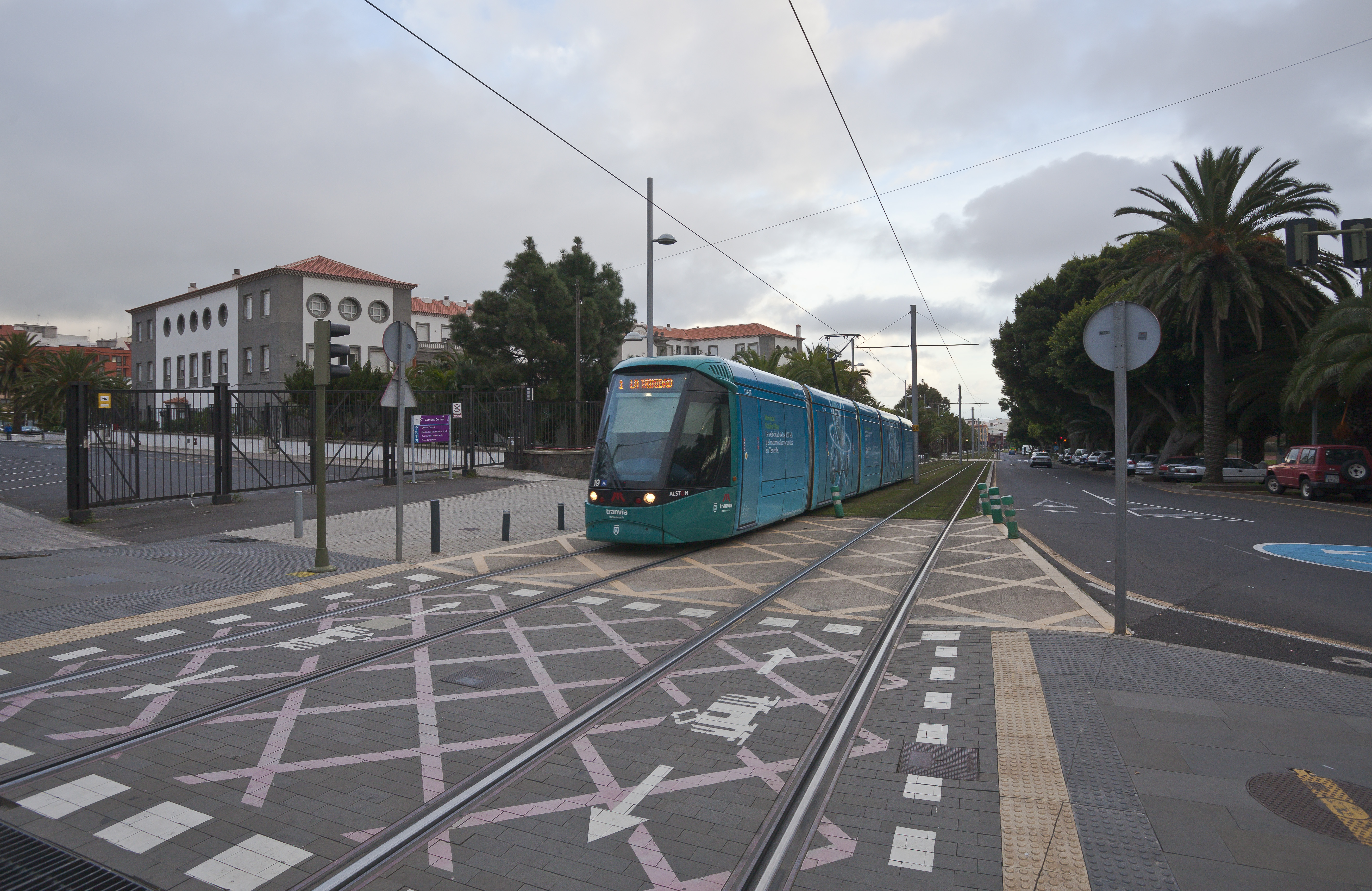 Tram, San Cristóbal de La Laguna, Tenerife, Spain